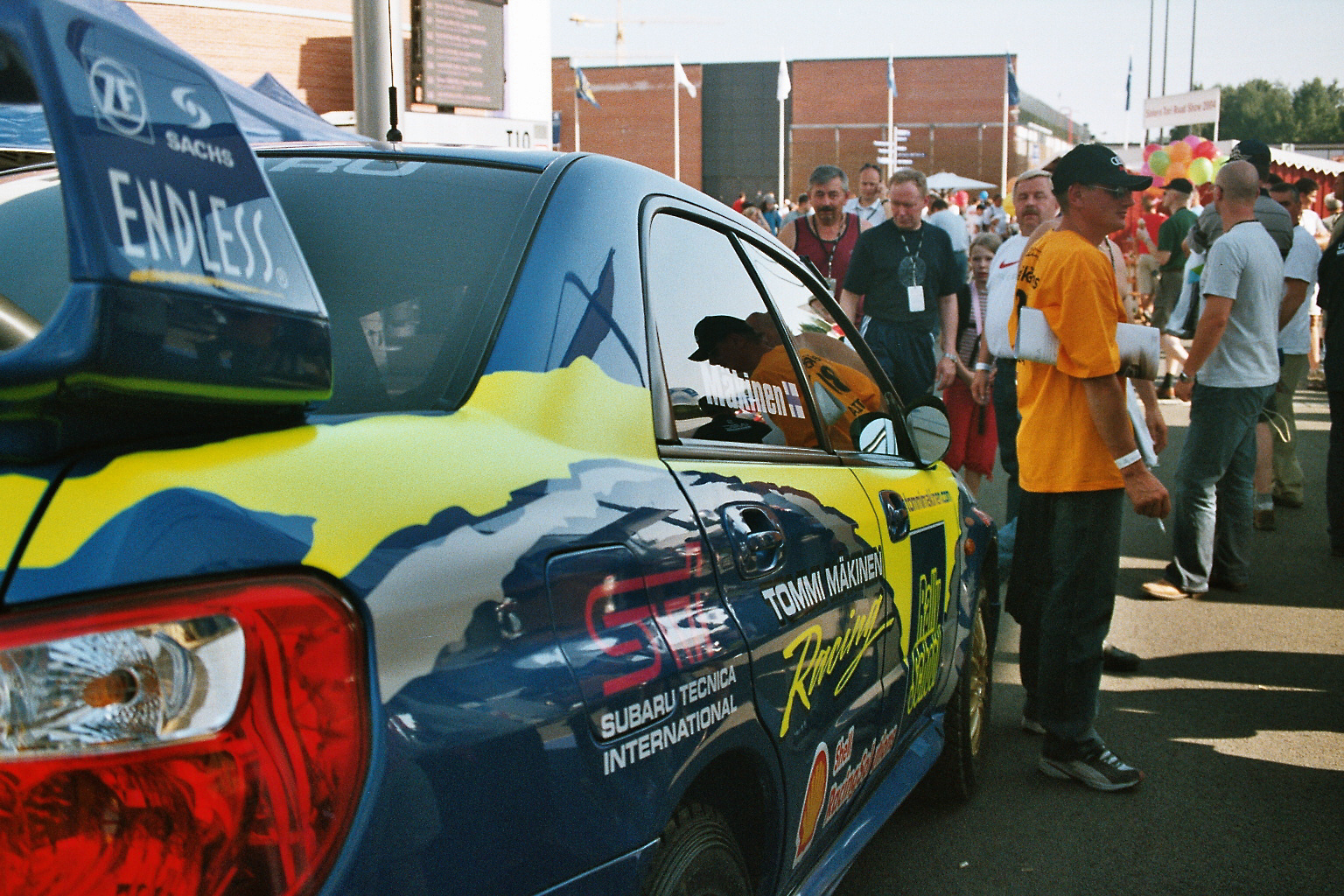 The service park of the 2004 Rally Finland on thursday.